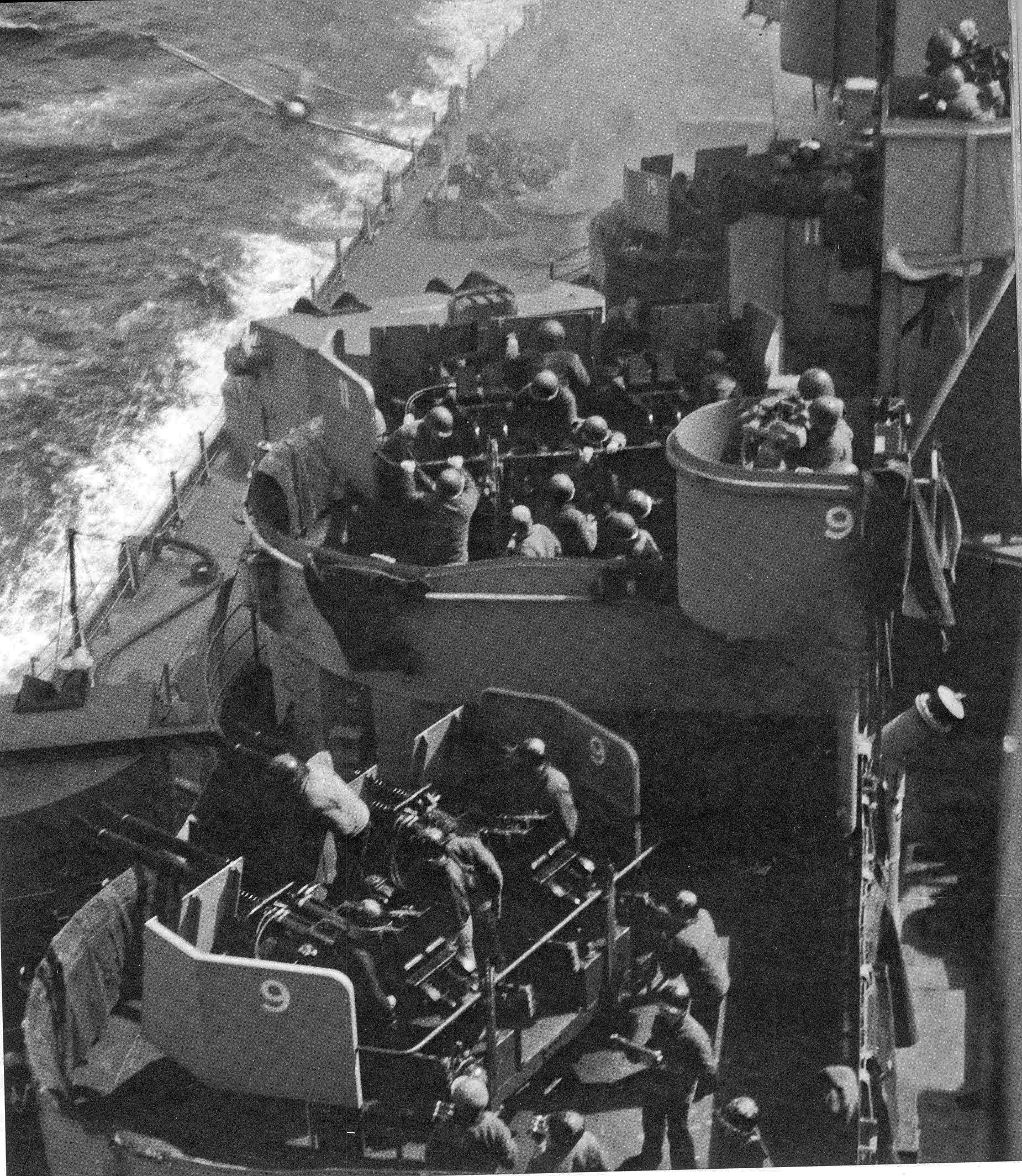 Kamikaze attack on the USS Missouri (BB-63). About to be hit by a Japanese A6M "Zero" kamikaze, while operating off Okinawa on 11 April 1945. The plane hit the ship's side below the main deck, causing minor damage and no casualties on board the battleship. A 40 mm quad gun mount's crew is in action in the lower foreground. The kamikaze on the photo has been identified as either Flight Petty Officer 2nd Class Setsuo Ishino or Flight Petty Officer 2nd Class Kenkichi Ishii.